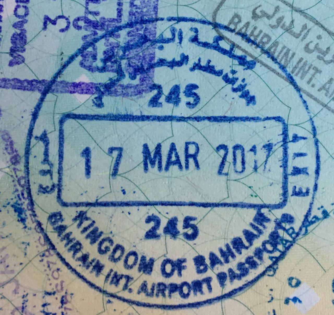 Bahrain exit stamp